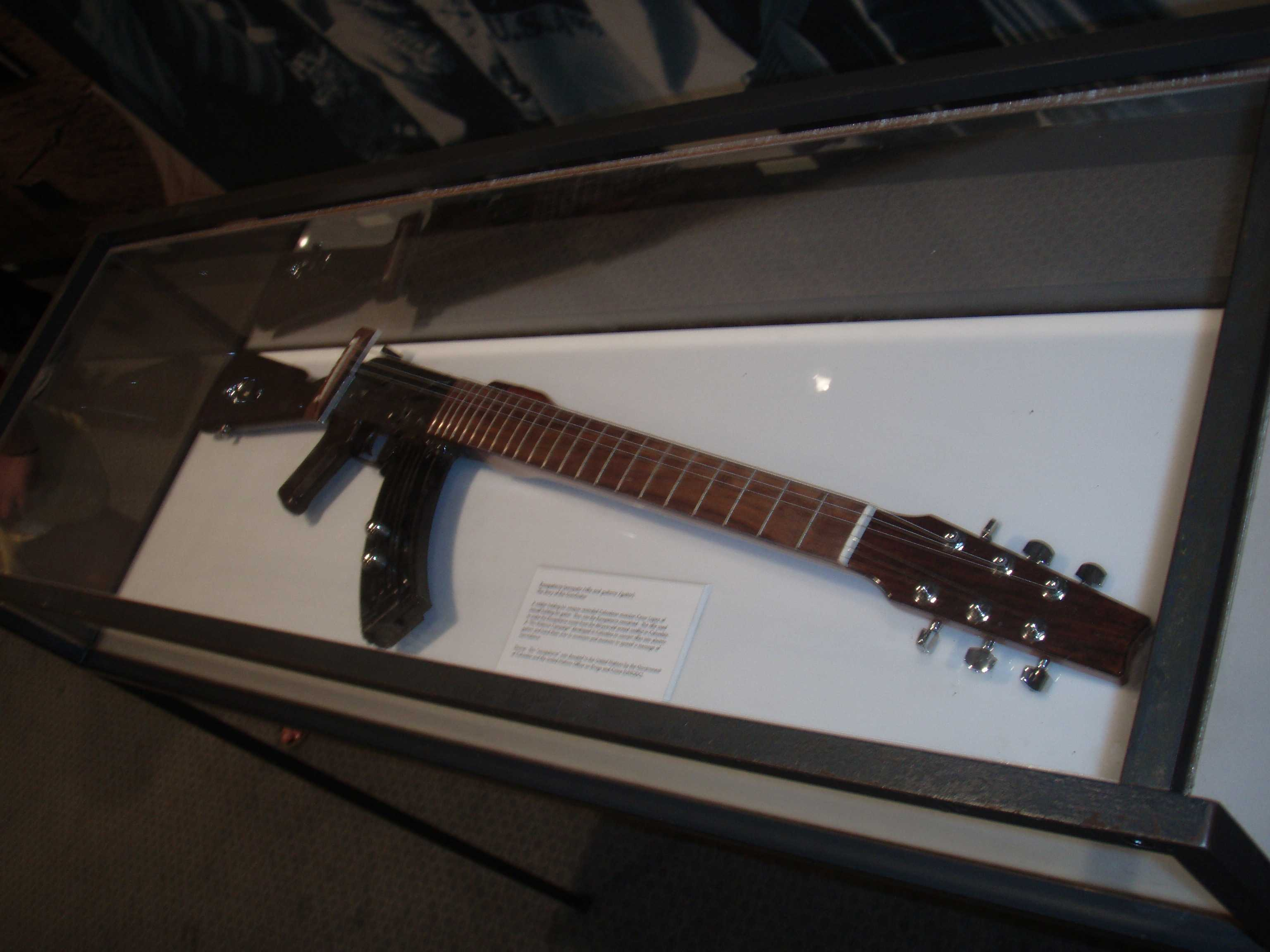 Escopetarra (Gun-guitar) on display at the United Nations Headquarters. Donated by the government of Colombia and United Nations Office on Drugs and Crime (UNODC).